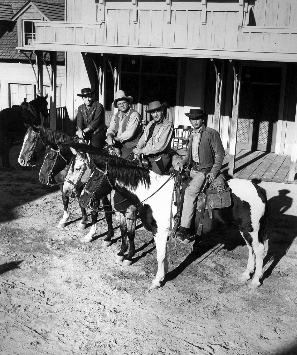 Photo of the main cast of Bonanza. From left-Pernell Roberts (Adam), Dan Blocker (Hoss), Lorne Greene (Ben), Michael Landon (Little Joe).